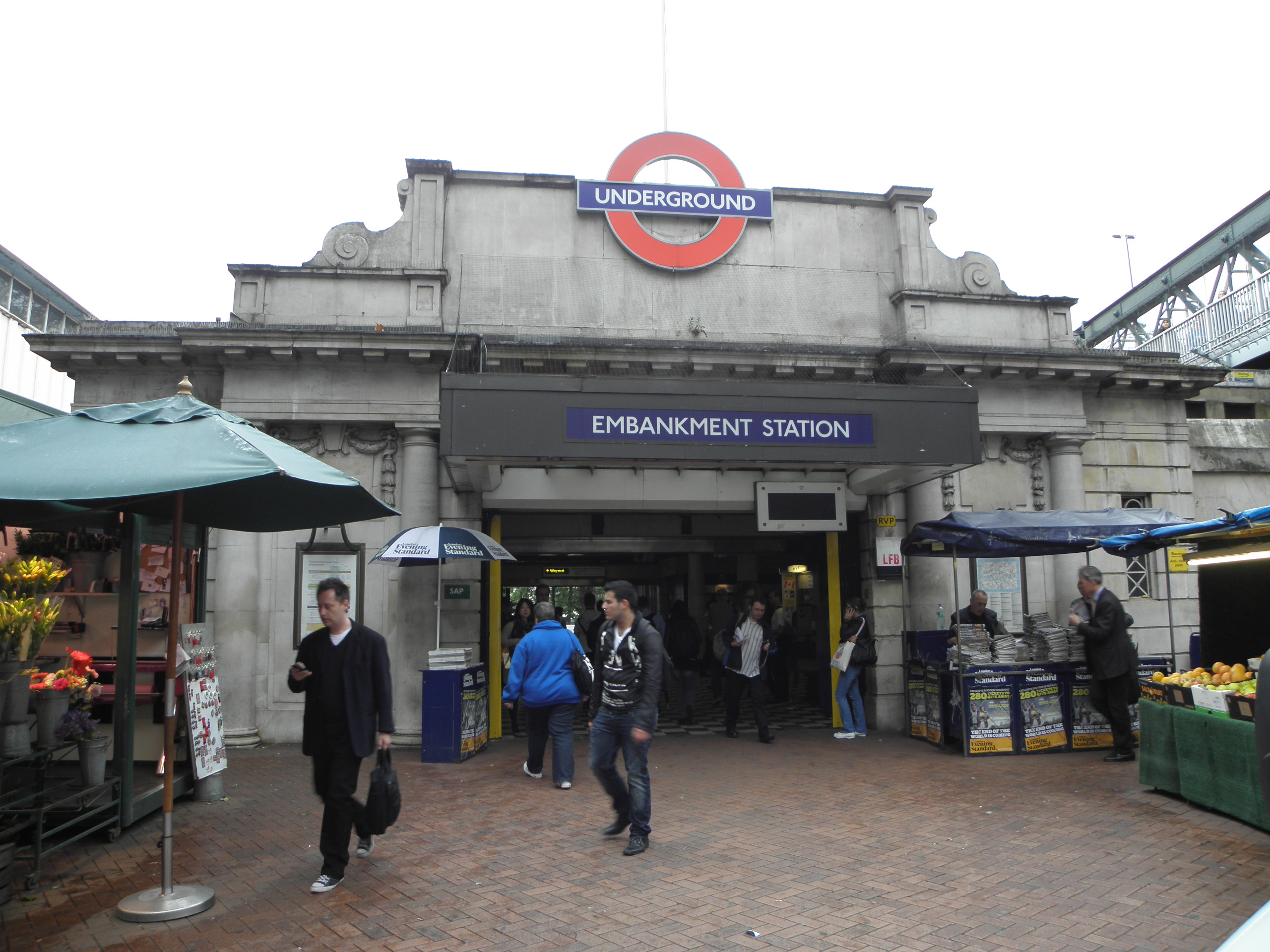 Embankment tube station northern entrance, facing the approach to Charing Cross railway station